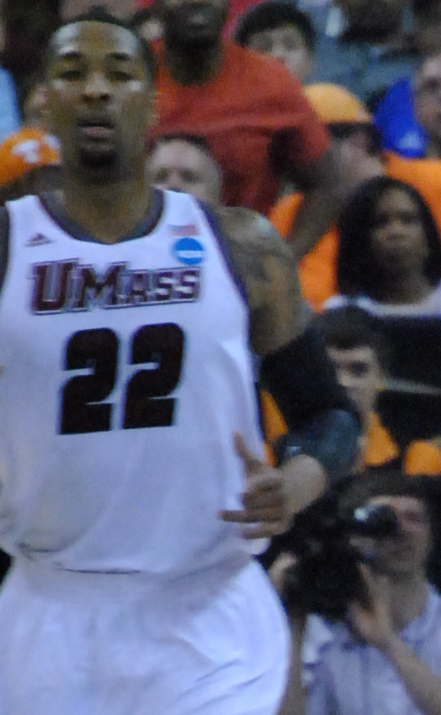 Darius Thompson brings the ball into the paint for the Vols.